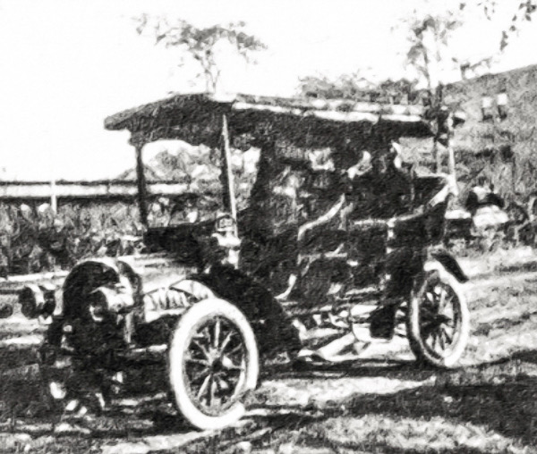 Film still from 1906 Selig film The Female Highwayman showing car highjacked by the title character; produced by Selig Polyscope Company (Chicago), published in Film Supplement, number 47, November 1906, p. 2 of 3 pdf copy of original 6-page publication; plot description and images from "The Female Highwayman"; Edison Collection (I-098), Rutgers, The State University of New Jersey (Piscataway, New Jersey)